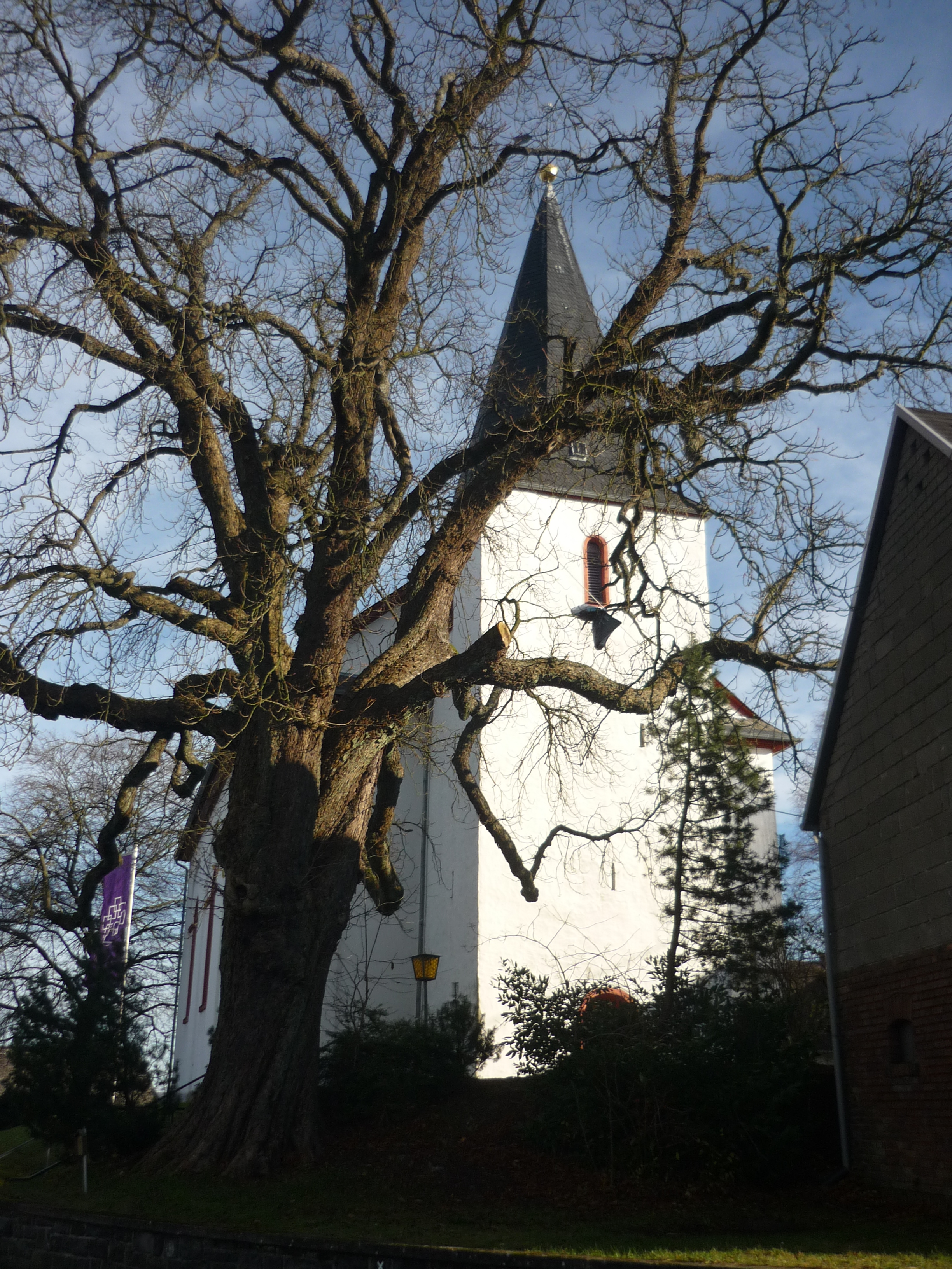 Old church in Alpenrod, Westerwald